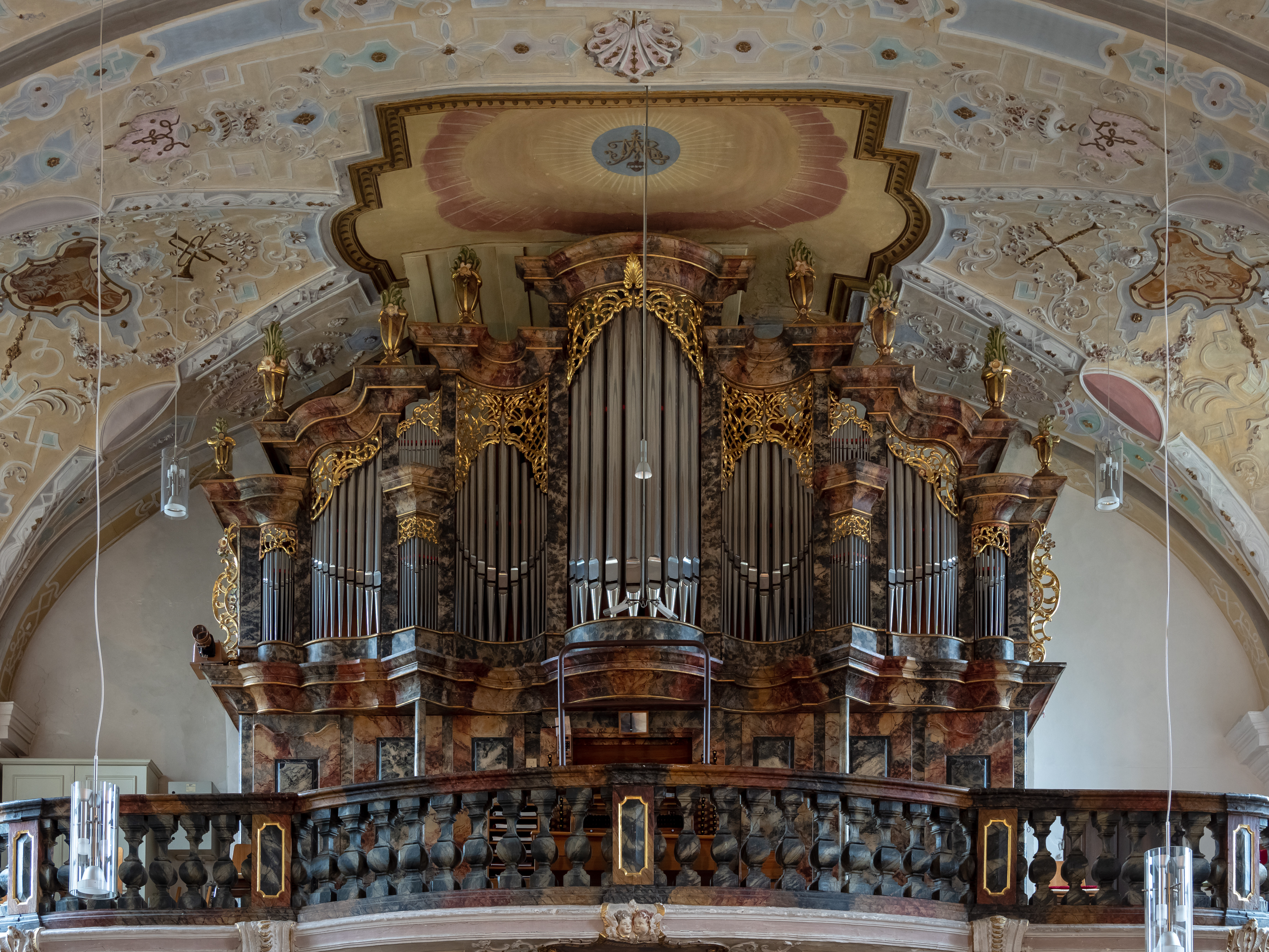 Organ loft in the pilgrimage basilica Marienweiher